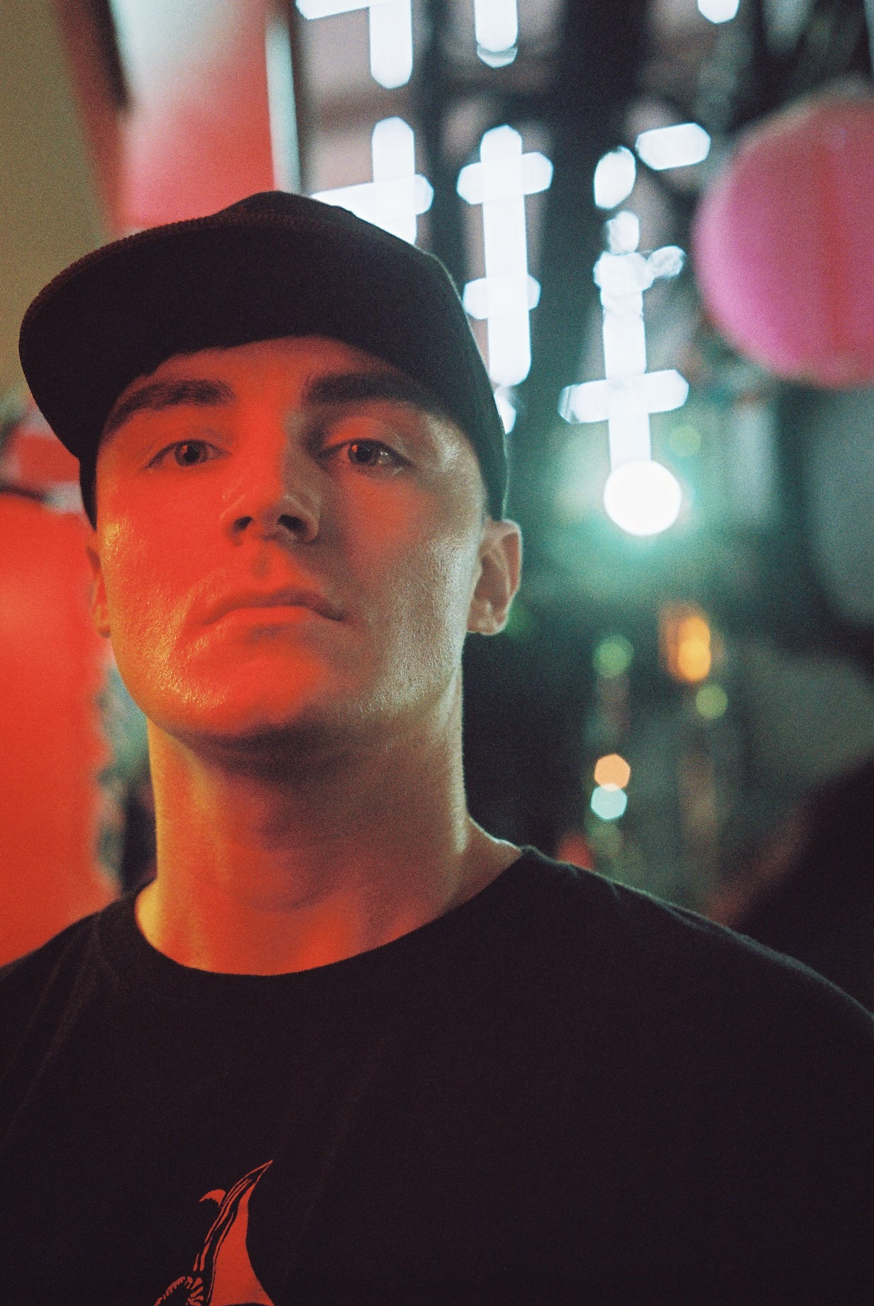 Daniel Deluxe Tokyo Shoot